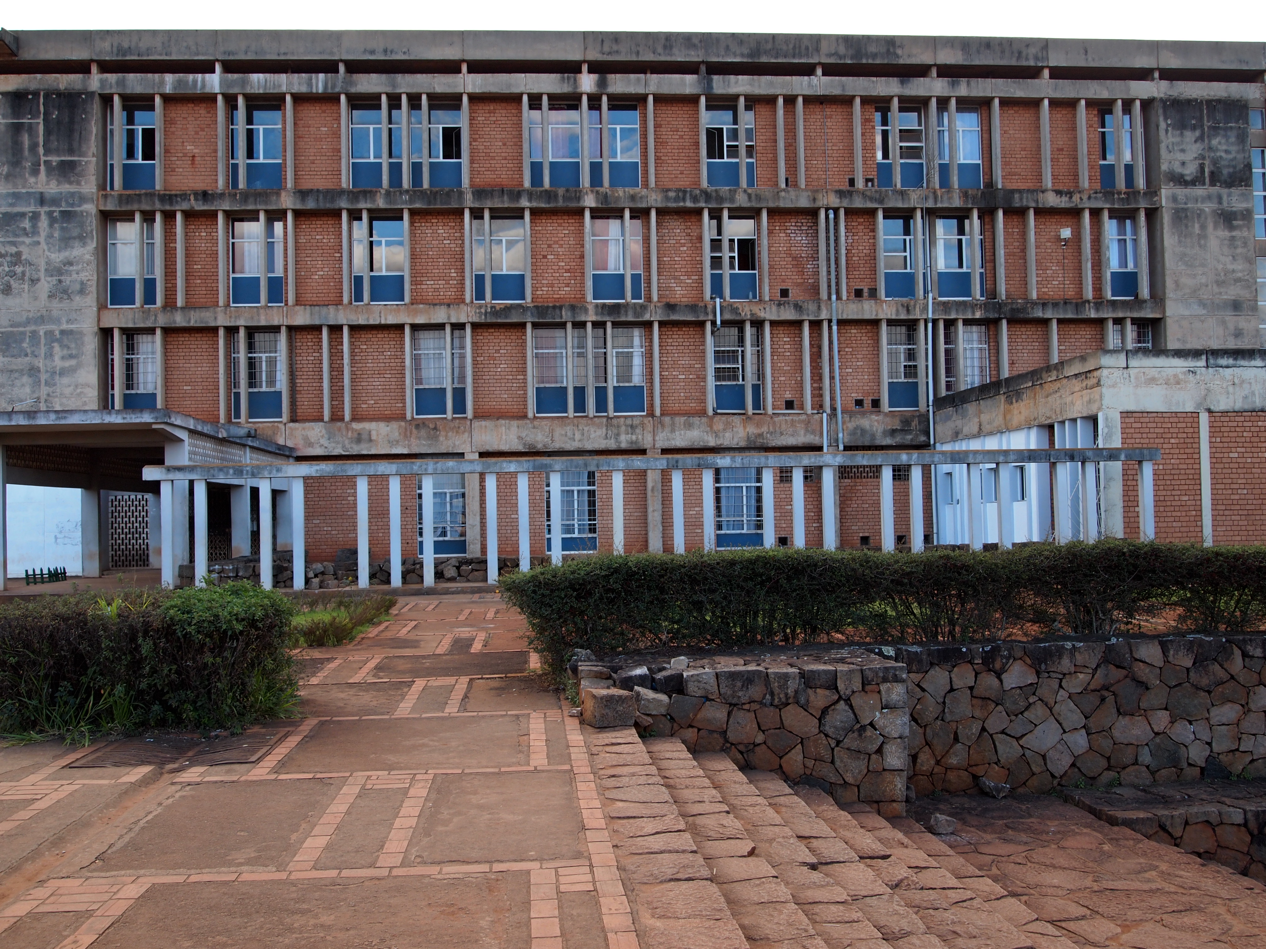 University of Antananarivo Madagascar 2m